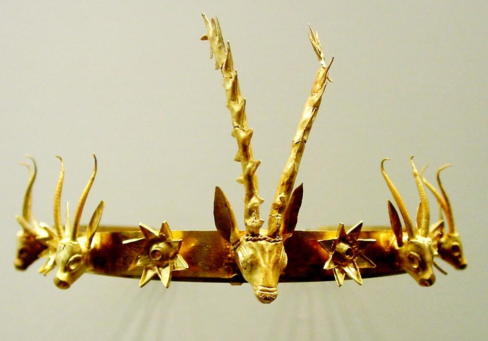 "Circlet or Diadem of an unknown Egyptian queen or a princess, electrum. H. (of stag's head) 8.5 cm. From Salhiya in the Eastern Delta. (near Avaris) Now in the Metropolitan Museum of Art, New York, Registration No.68.136.1." "This unique crown, consisting of a band of electrum 1.5 cm wide perforated to take tie-strings at the rear and mounted with rosettes and animals heads, appears to have been made in Egypt largely under Asiatic inspiration, if it is not an Asiatic import. In the Egyptian 18th Dynasty, it became the fashion to decorate the diadems of princesses and lesser queens with the figure of a gazelle's head in place of the uraeus or vulture of principal queens. This crown with its four gazelle heads may have been part of the trousseau of a foreign princess sent as a bride for one of the [Ancient Egyptian] Pharaohs according to the [international] diplomacy of the age." (Cyril Aldred. Jewels of the Pharaohs. ed. Thames & Hudson Ltd. London: 1978)